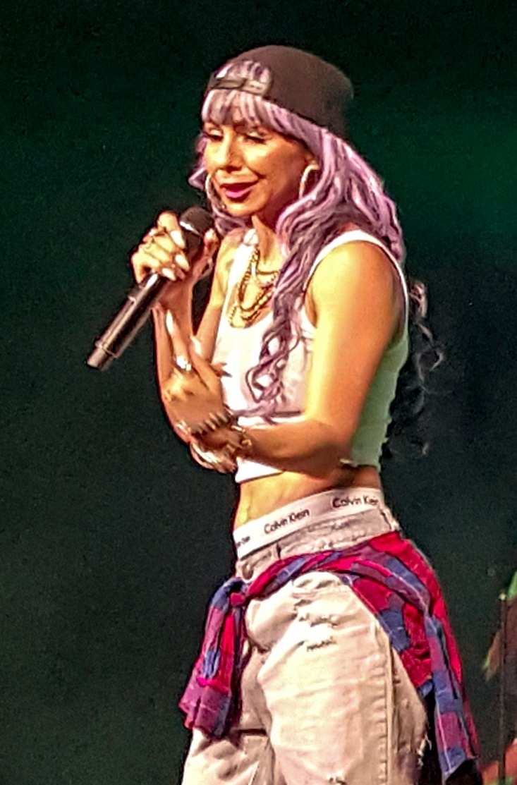 Anjelah Johnson as Bon Qui Qui at the McAllen Convention Center on April 18th 2016